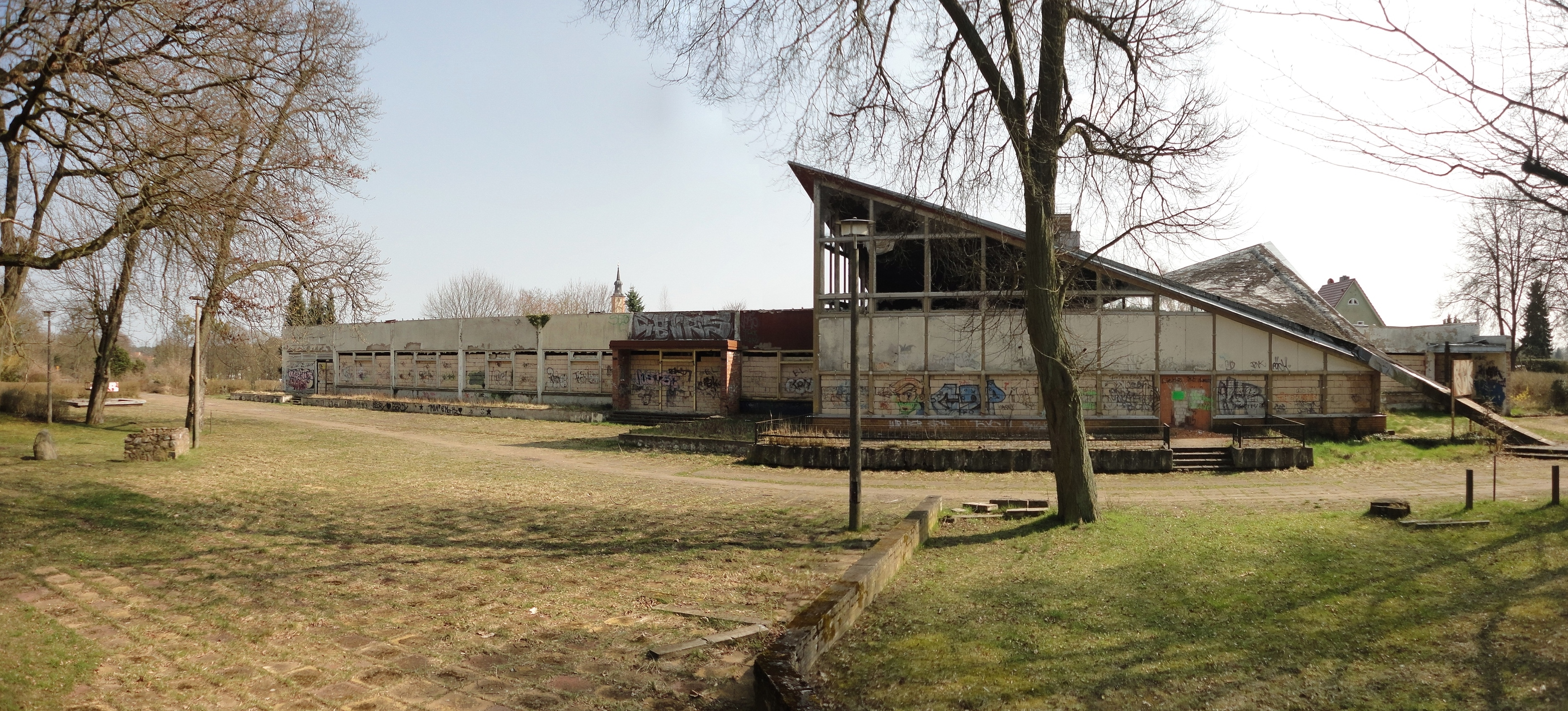 Western view of former Kulturzentrum Bürgergarten in Templin, Brandenburg state, Germany. Architect Ulrich Müther